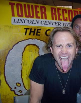 Photo of Lee Tergesen at Oz convention.